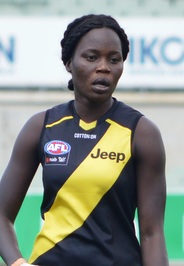 Akec Makur Chuot with Richmond during the round 3, 2020 AFL Women's match against North Melbourne at Ikon Park.